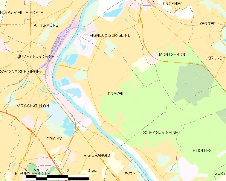 Map of French municipality Draveil